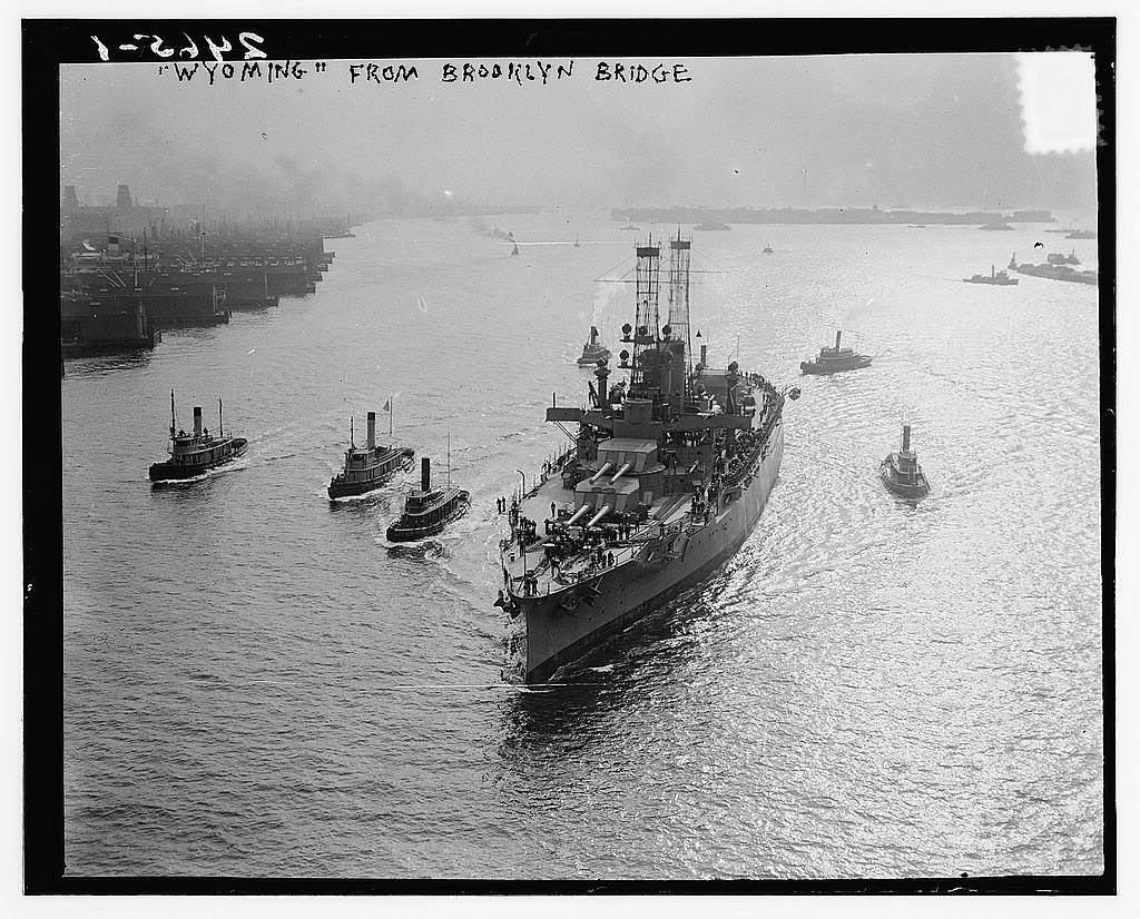 Battleship USS Wyoming (BB-32) about to sail in under the Brooklyn Bridge, New York City, 1912.